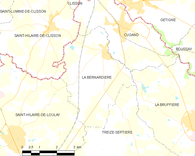 Map of French municipality La Bernardière